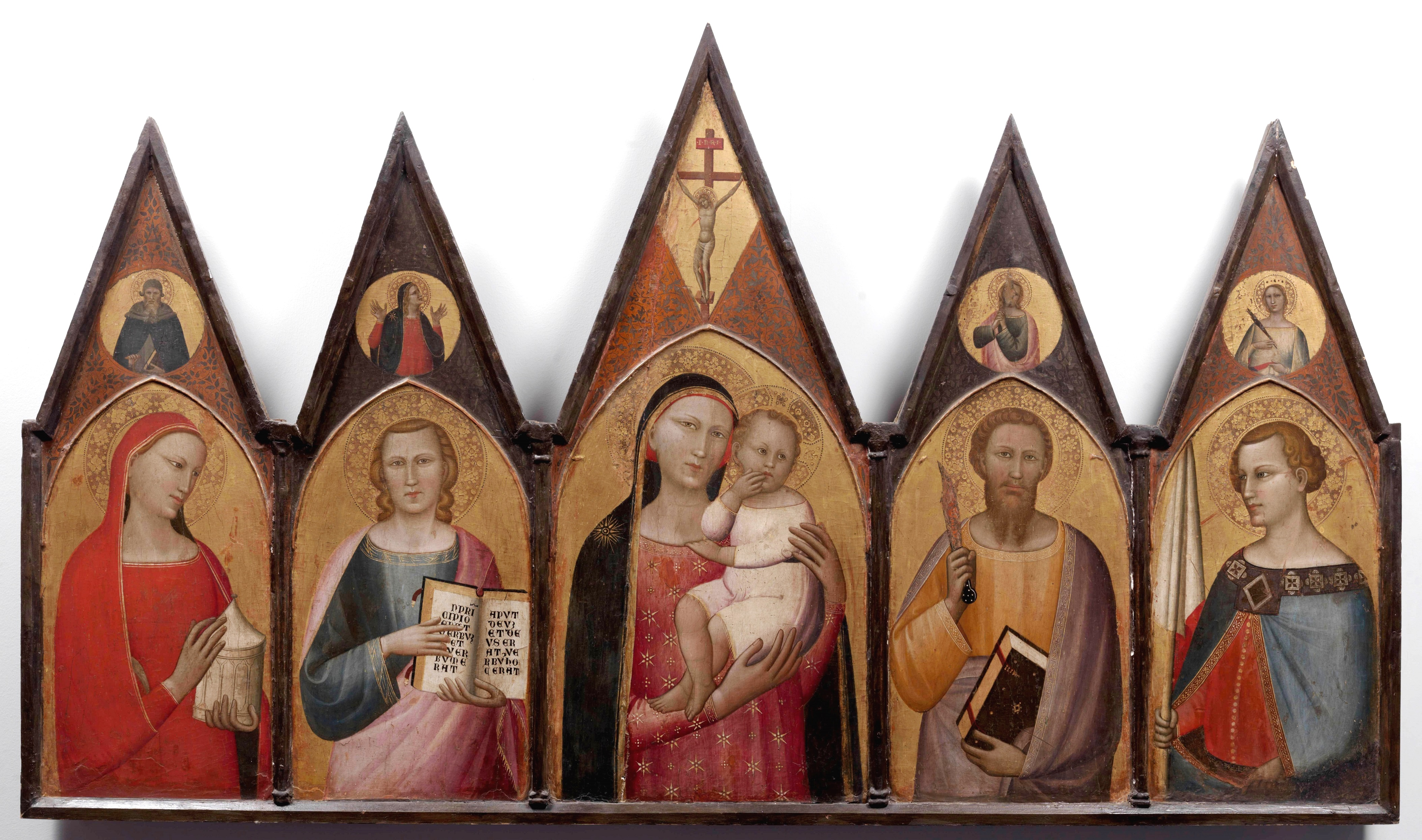 Allegretto Nuzi. Madonna and Child with Saints. End of 1340s. Fabriano, Pinacoteca Civica